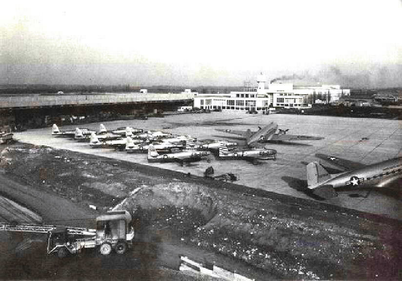 Photo of Chateauroux-Deols Air Depot (CHAD) - France Source: United States Air Force